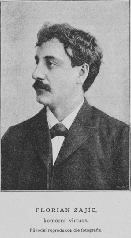 Portrait of Florián Zajíc (1853-1926), Czech-German violinist and music teacher.